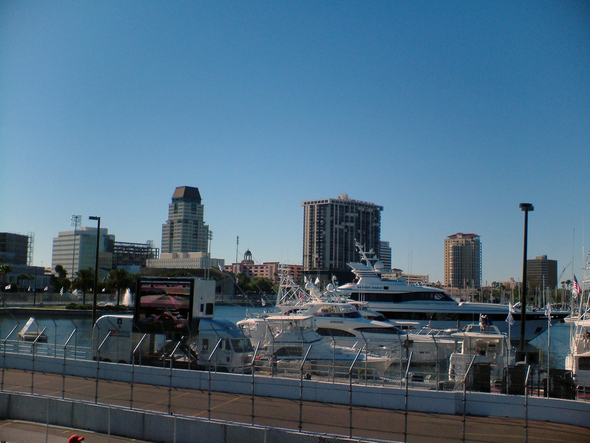 Downtown St. Petersburg, Florida during the 2005 Grand Prix of St. Petersburg. Shot from Albert Whitted Airport waterfront.